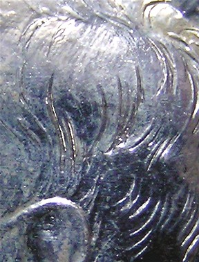 Closeup of the accented hair on the 1964 proof die variety. Note the extra hair lines. Photo was taken by me, user bobby131313, and may be used freely anywhere with no specific permission required.